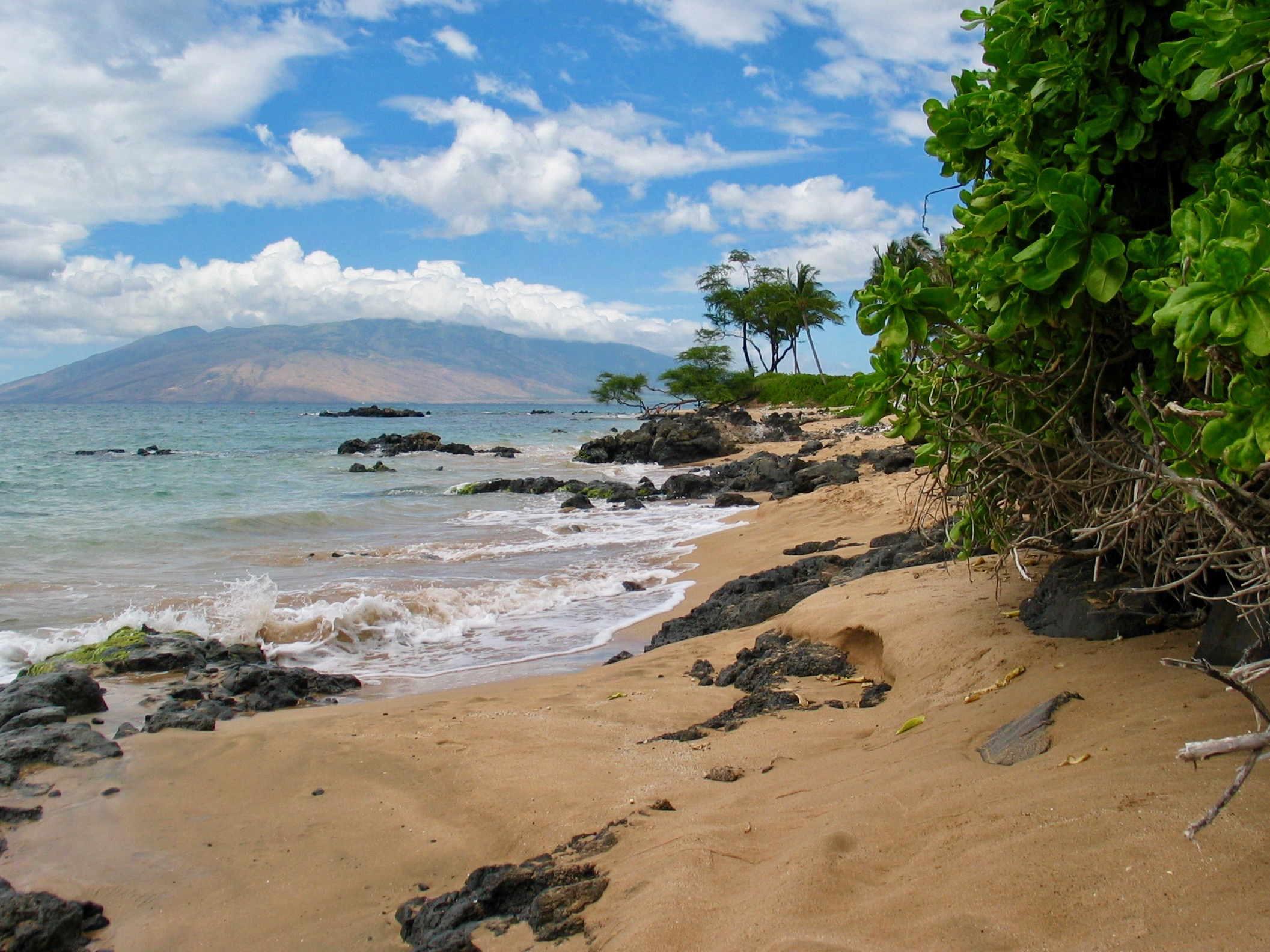 Kihei beach, in the background: West Maui Volcano. Camera: Canon Powershot G3